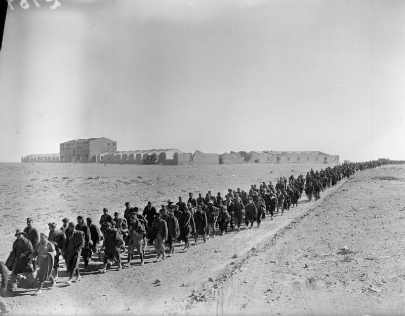 The Campaign in North Africa 1940-1943 The Italian Offensive 1940 - 1941: Italian prisoners captured at Sidi Barrani are marched into captivity.